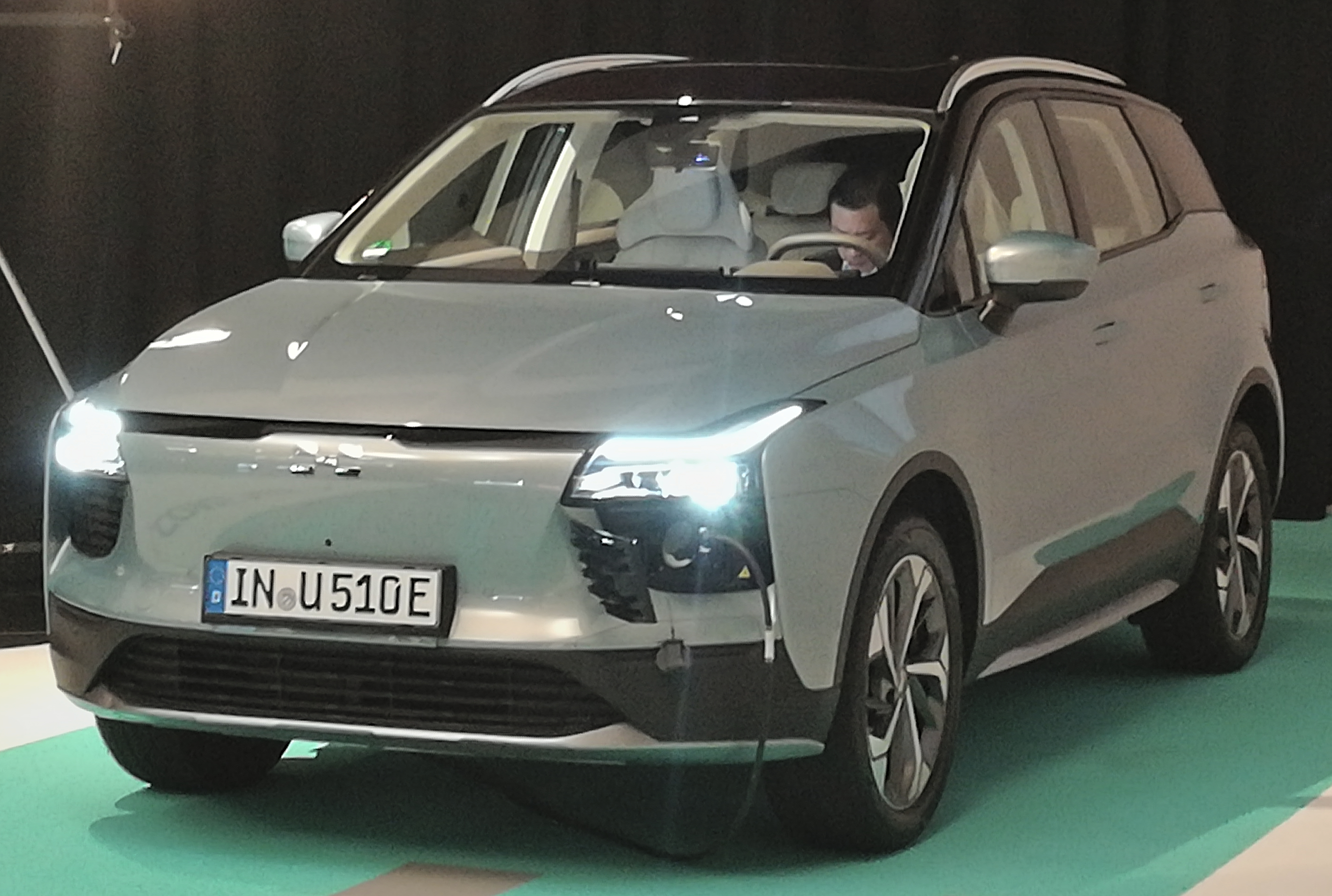 Aiways_U5 in Leonberg